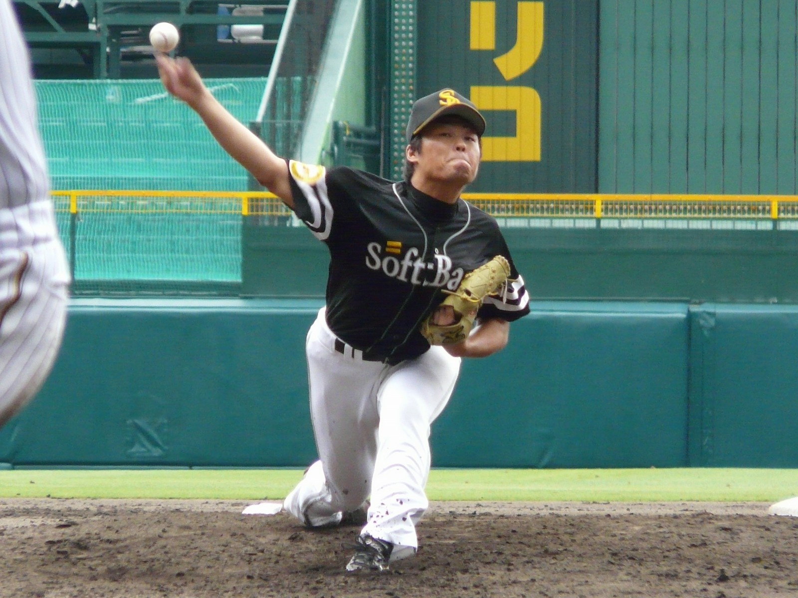 Keisuke Kattou